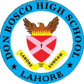 Don Bosco High School Emblem